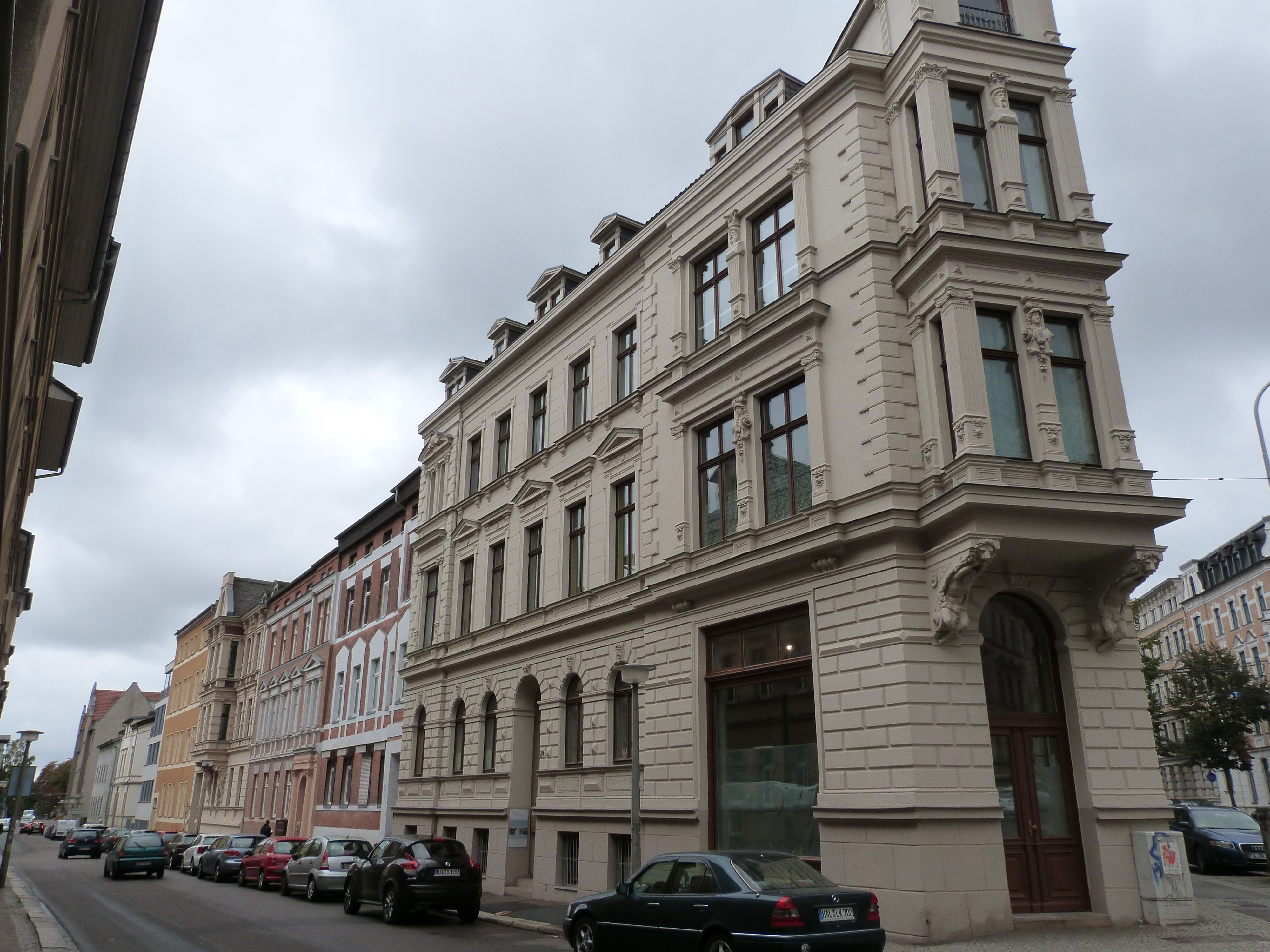 Street Mühlweg in Halle (Saale), eastern part, view from the Ludwig-Wucherer-Strasse with the corner house Mühlweg No. 29